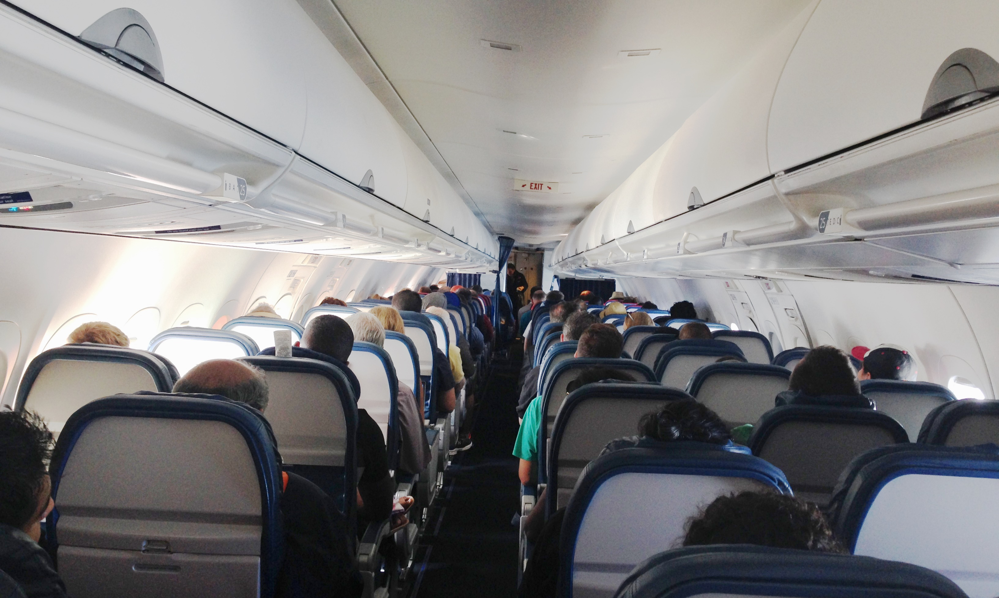 The interior of a Boeing 717 before take-off from Tampa International Airport.